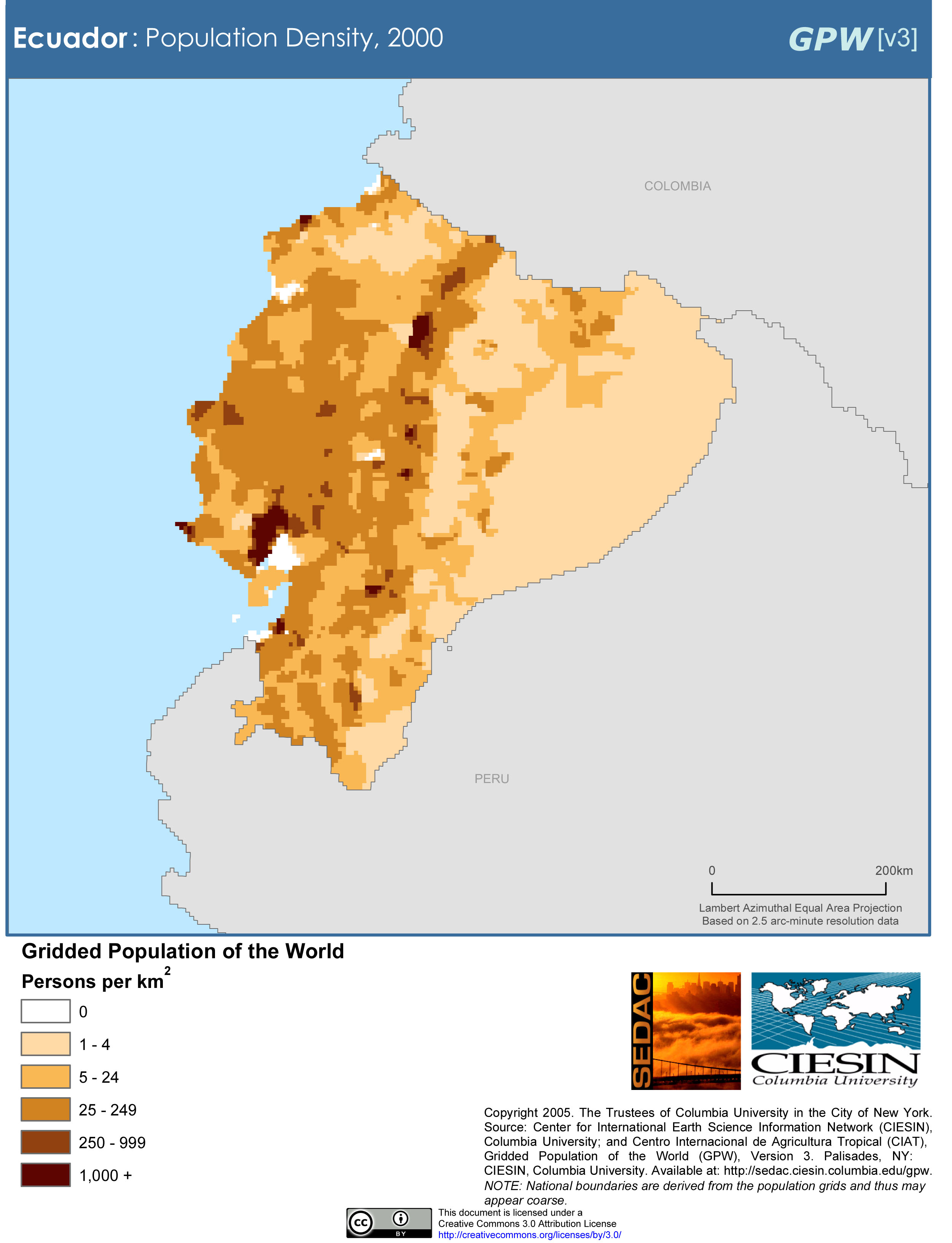 Ecuador: Population Density, 2000